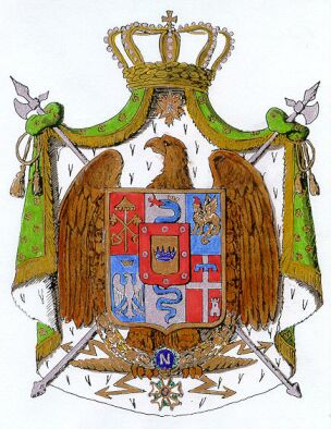 Arms of the Kingdom of Italy 1806. Drawn by Theo van der Zalm. The arms show a Roman eagle as a supporter, on its breast a shield, with a silver pale charged with the blue Milanic serpent (spitting out - as it is originally meant - the first human). Both sides of the pale are divided horizontally. The upper right field shows the papal parasol with the keys of Saint Peter. The upper left shows the Venetian lion, but without bible and with a Phrygian cap (revolutionary symbol) on its head. The lower left quarter shows the white eagle of the house of Este (for Modena) and the lower right shows the arms of Piemonte, but under to the right charged with a silver tower (for Rovigo and Feltre). The shield is charged with an escutcheon showing the Iron Crown of Lombardy (with pinnacles) in a red border with silver rings. Around the shield is the order of the Legion d'Honneur. Above the eagle rises the Napoleonic star.